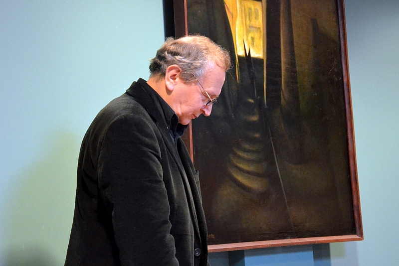 "Tym razem wyraźnie" (vernissage)